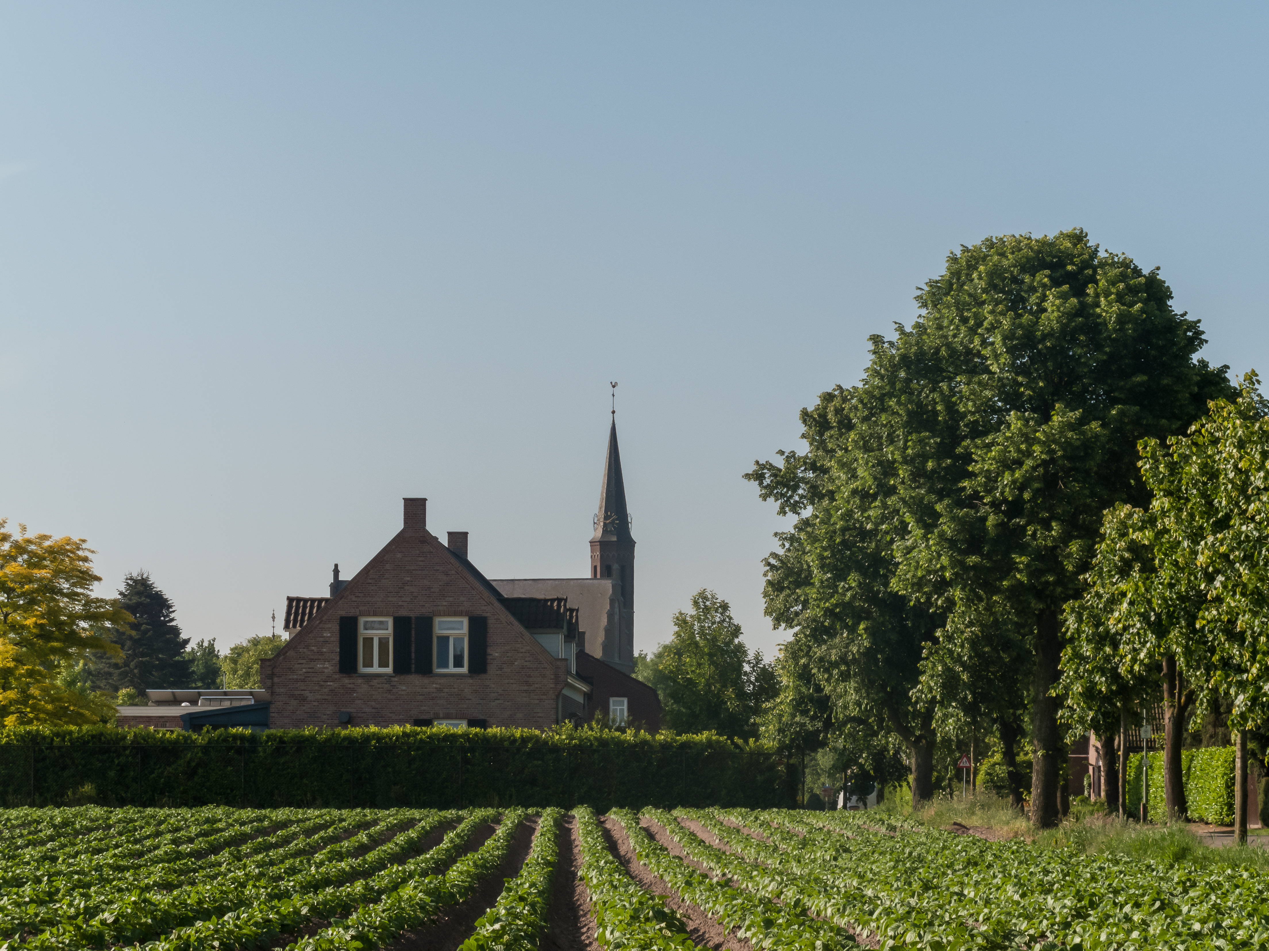 Merselo, view to the villager with churchtower (de Johannes de Doper -Sint Janskerk)